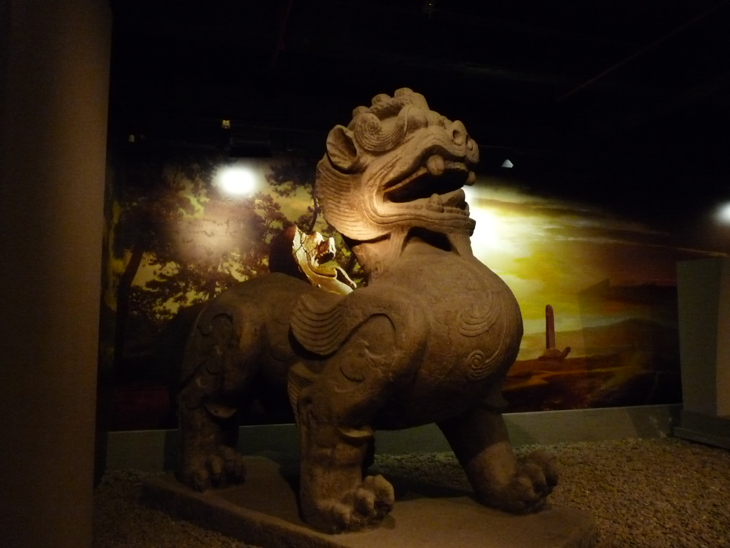 Nanjing - Chaotian Palace - Bixie